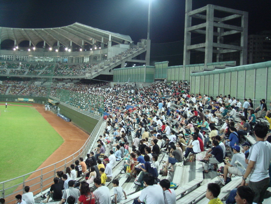 Taipei Tianmu Baseball Stadium